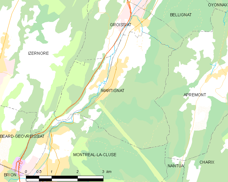 Map of French commune: Martignat Map commune FR insee code 01237.png